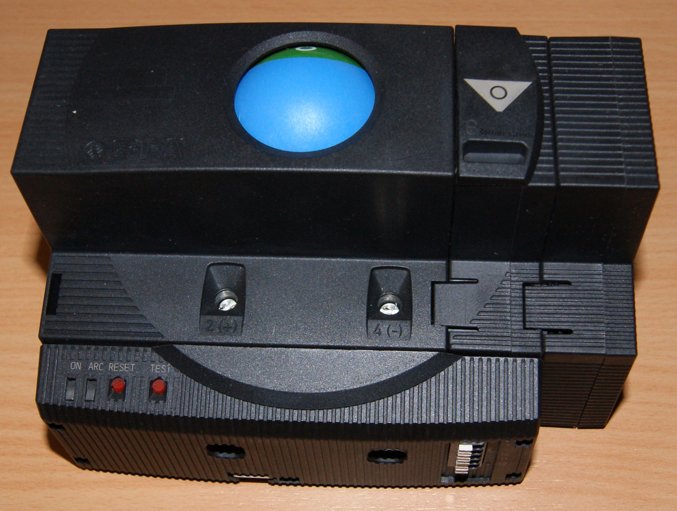 A Fireman's Switch from E.T.A for photovoltaic power plant to protect firemans.